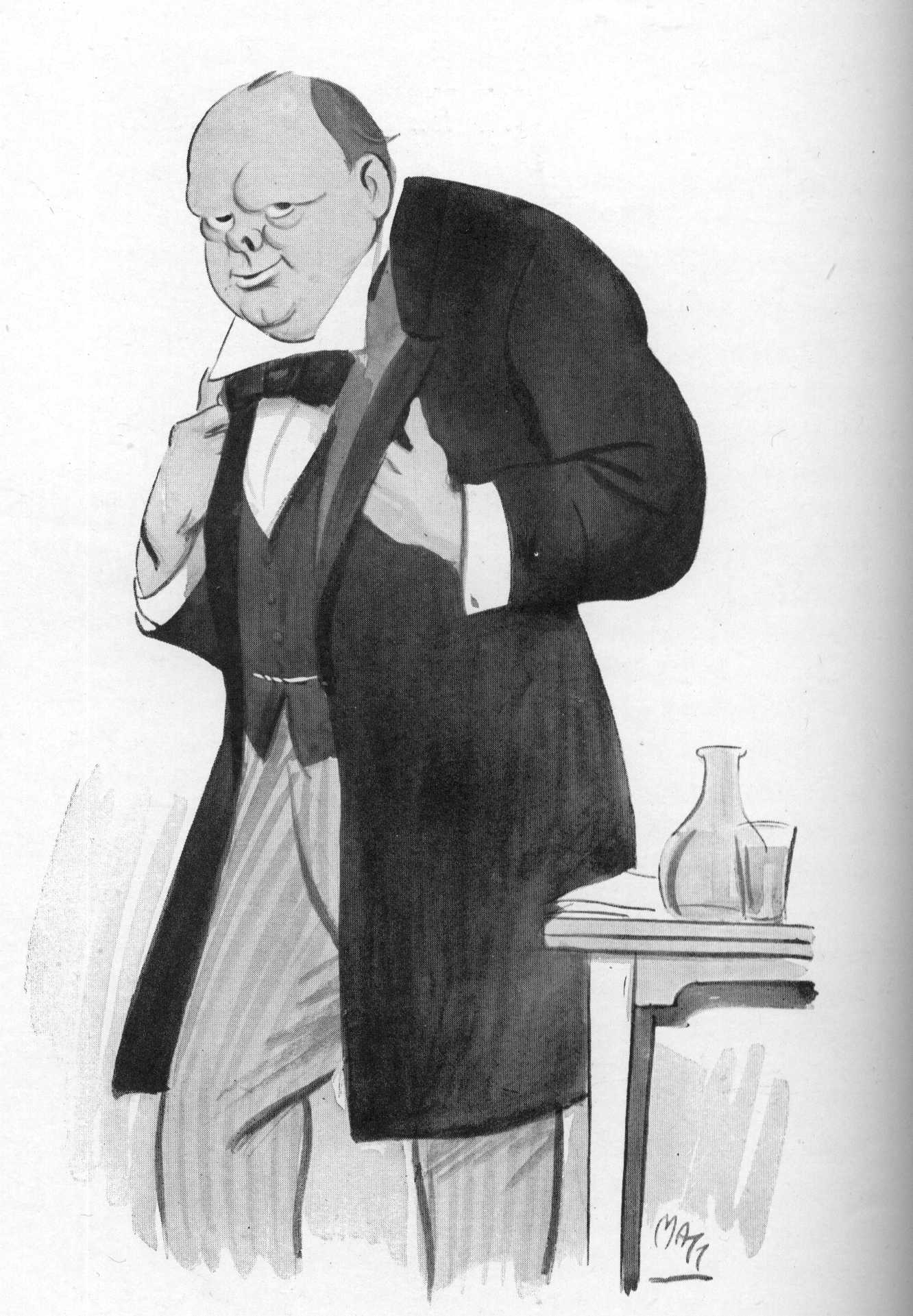 Sketch of Sir Winston Churchill by "Matt". Drawn in 1923 as illustrative material for a book on "Contemporary Personalities" by the Earl of Birkenhead.